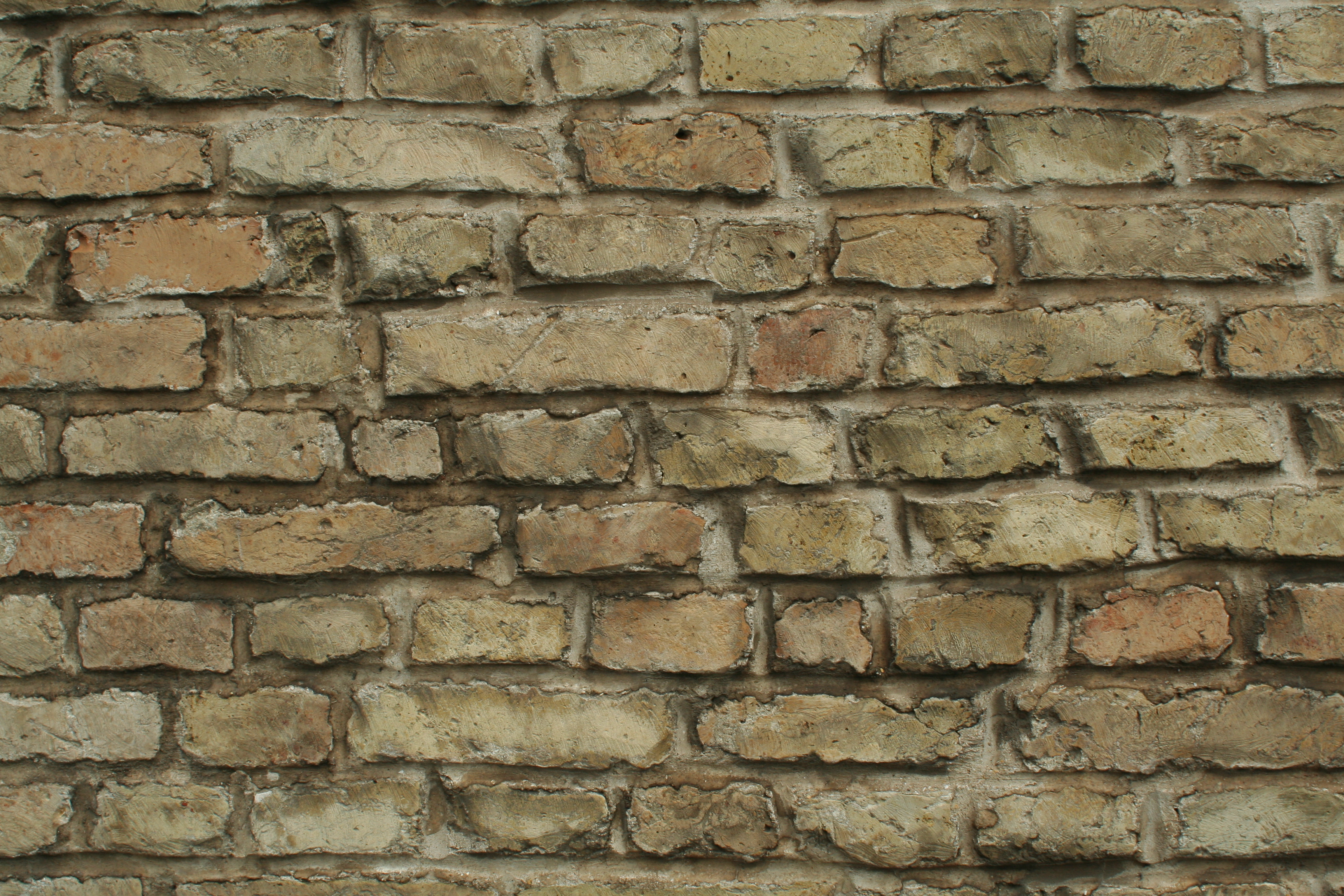 Brickwall in Saint-Omer, Pas-de-Calais, France.